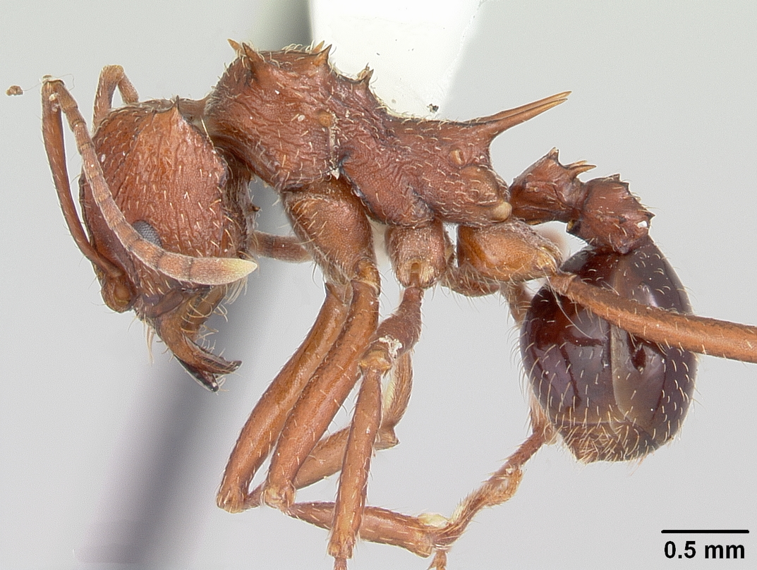 Profile view of ant Acromyrmex striatus specimen casent0104326.